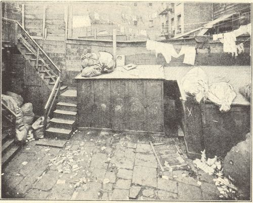 Bottle Alley, from The Battle with the Slum by Jacob A. Riis